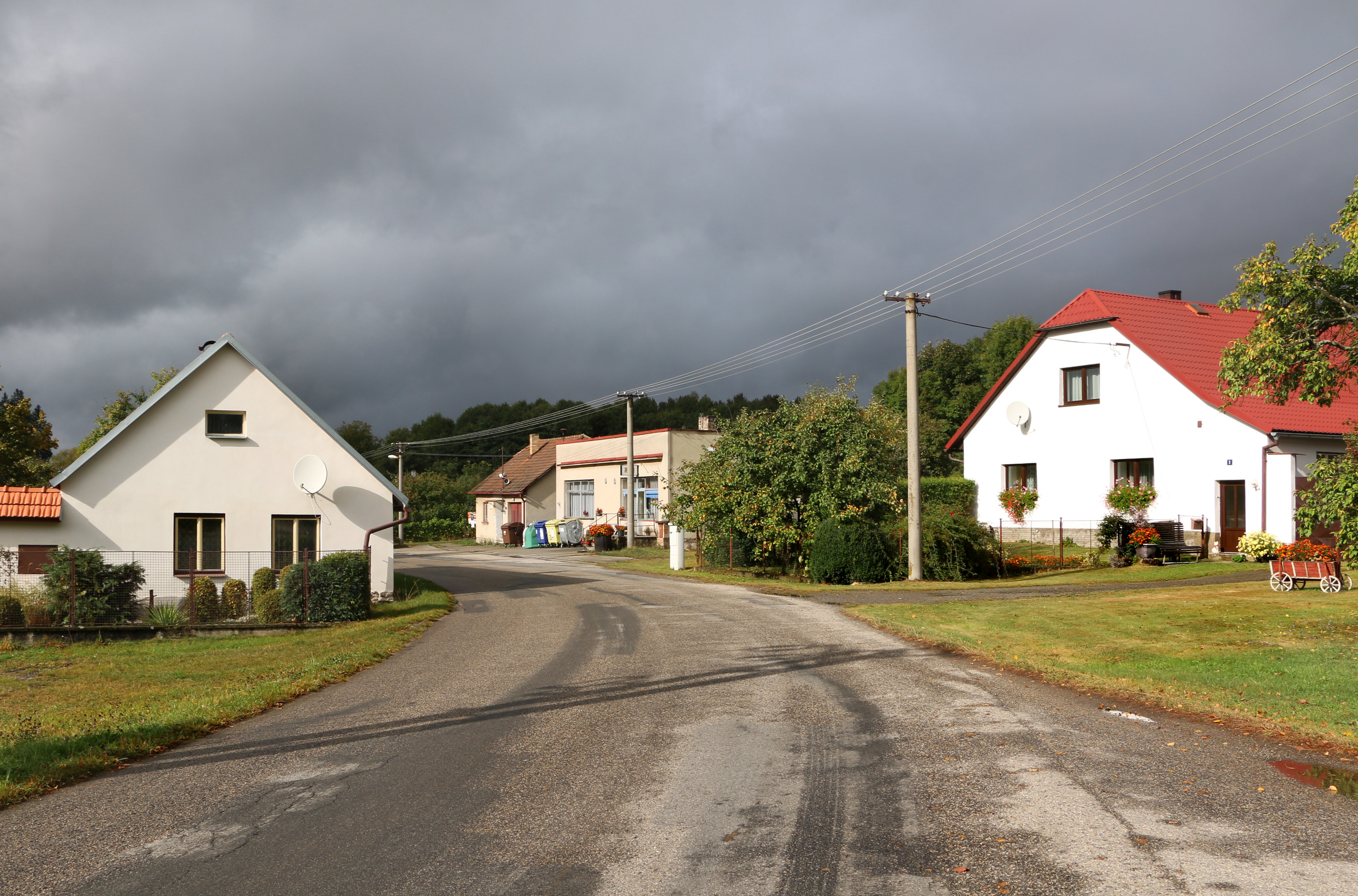 Road No 409 in Horní Vilímeč, part of Počátky, Czech Republic.